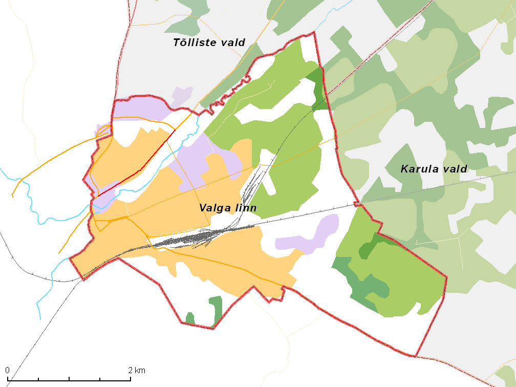 Map of municipality in Estonia